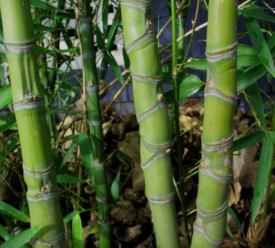 Golden Bamboo (Phyllostachys Aureosulcata), aka Fishing Pole Bamboo, can be easily identified by its characteristic compressed internodes in the lower portion of the cane. This is sometimes called the 'tortoiseshell'.